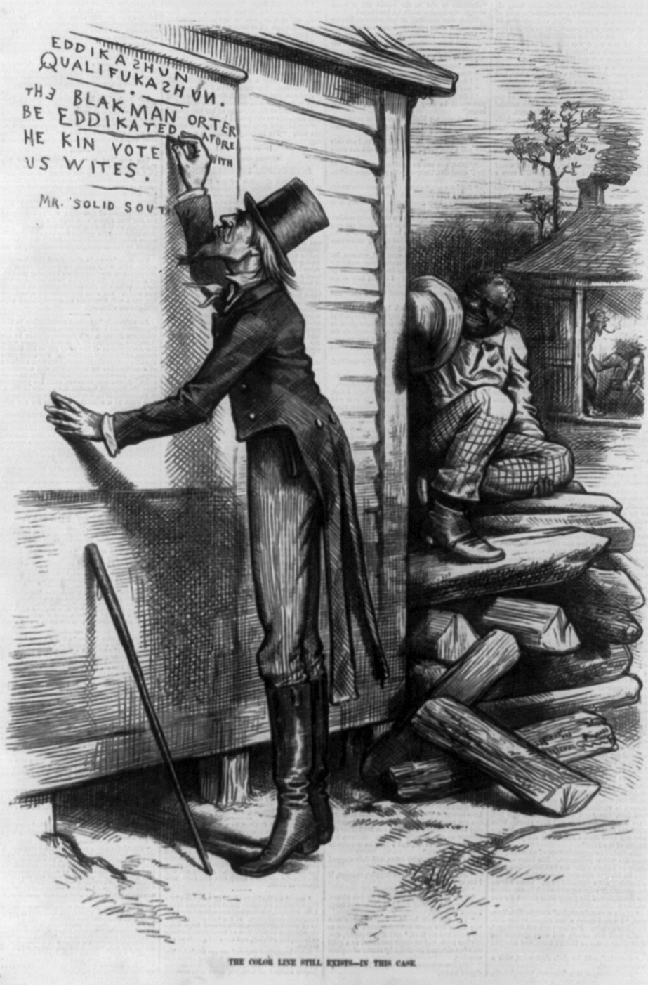 Editorial cartoon criticizing the usage of literacy tests for African Americans as a qualification to vote. Cartoon shows man "Mr. Solid South" writing on wall, "Eddikashun qualifukashun. The Black man orter be eddikated afore he kin vote with us Wites, signed Mr. Solid South." An African American looks on. Illustration in: Harper's Weekly, v. 23 (1879 Jan. 18), p. 52